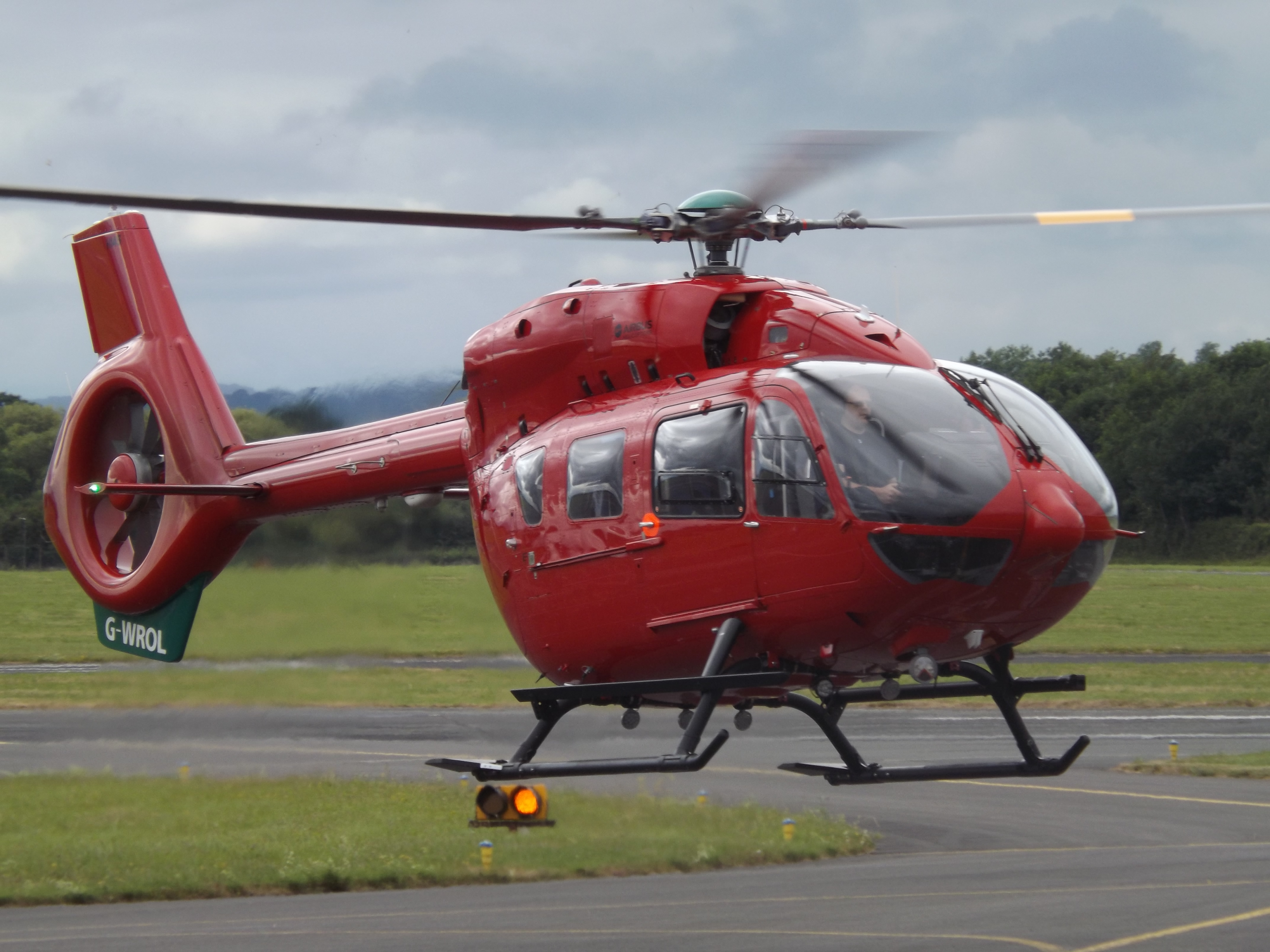 At Gloucestershire Airport.